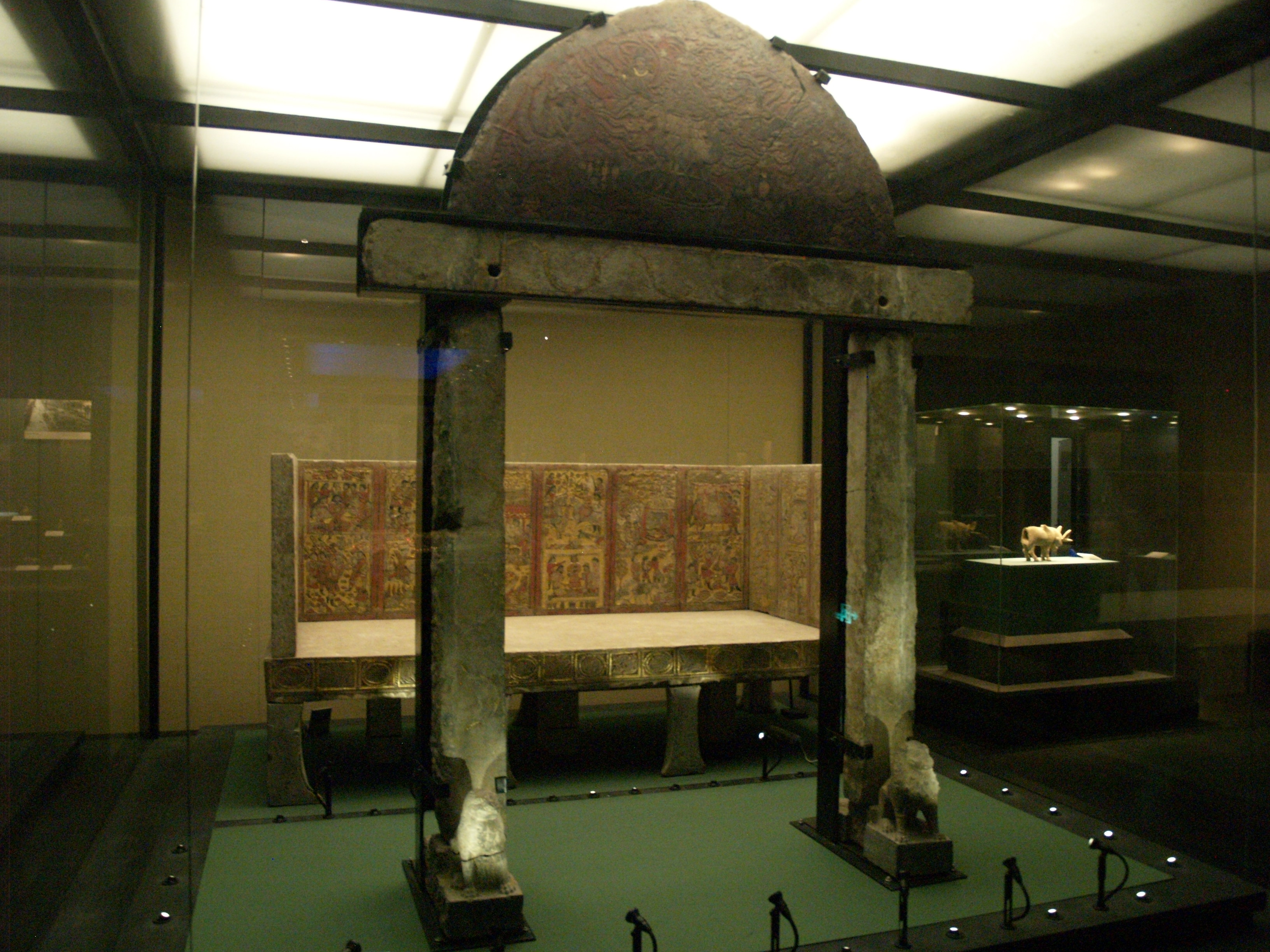 The stone tomb gate and couch of Anjia, Northern Zhou period Sogdian nobleman. Info provided by the museum shown below: Stone Tomb Gate and Couch Northern Zhou Period (557-581) Excavated from An Jia's tomb, the northern suburbs of Xi'an City Collections of Shaanxi Provincial Institute of Archaeology The stone gate consists of four parts: lintel, frame, threshold, and two lions on both sides of the door. The horizontal tablet is carved with sacrificial scene of Zoroastrianism. This stone couch is composed of 11 pieces of stone-blocks bearing 56 pictures, depicting the worldly scenes of out-going, feast, hunting, and entertainment of the owner, Anjia. He was from a Sogdian noble family, and held the title of Sar-pav of Tongzhou prefecture of Northern Zhou dynasty in charge of commercial affairs of foreign merchants from Middle Asia who made businesses in China and Zoroastrianism affairs. He lived in Chang'an and buried there. The images were non-Chinese. This chamber is gorgeously engraved with various decorative motifs and applied with gold, indicating its significant historical and artistic value.